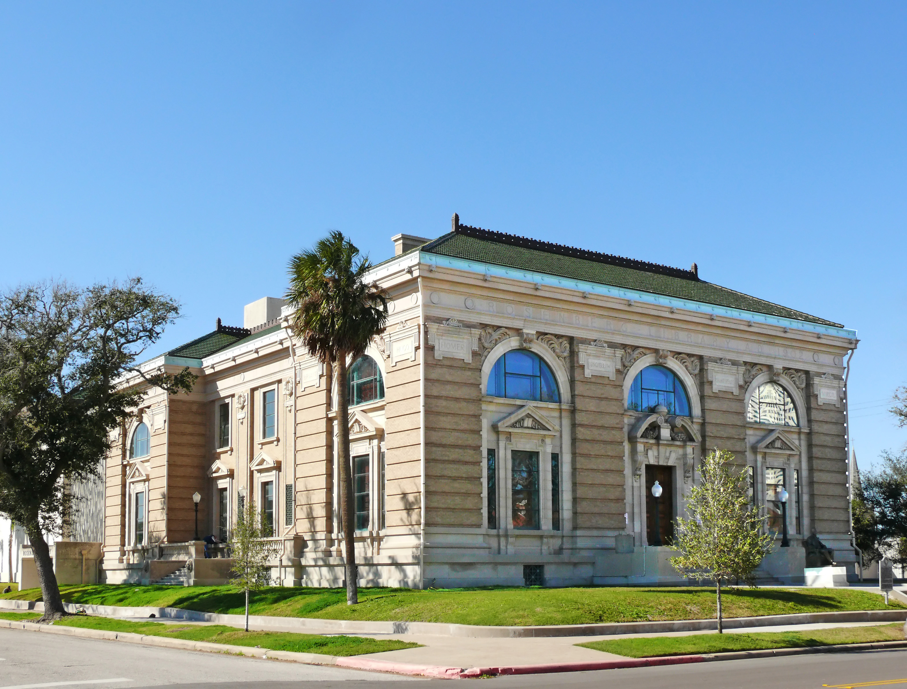 The oldest free public library in continuous operation in Texas.